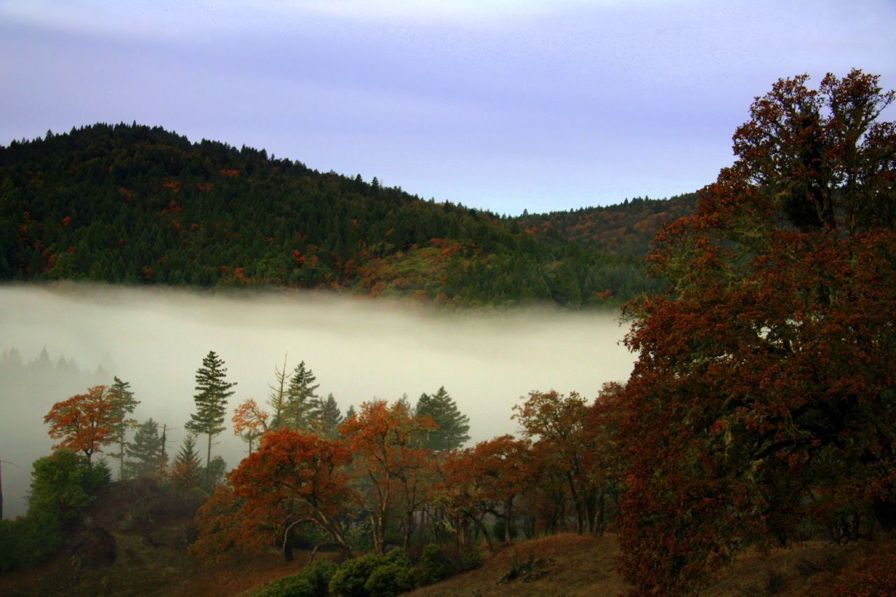 Fog in the California wine region of Mendocino County, northern California. The fog line plays a dominant role in influencing the grape varieties planted in Mendocino County vineyards, across the county.